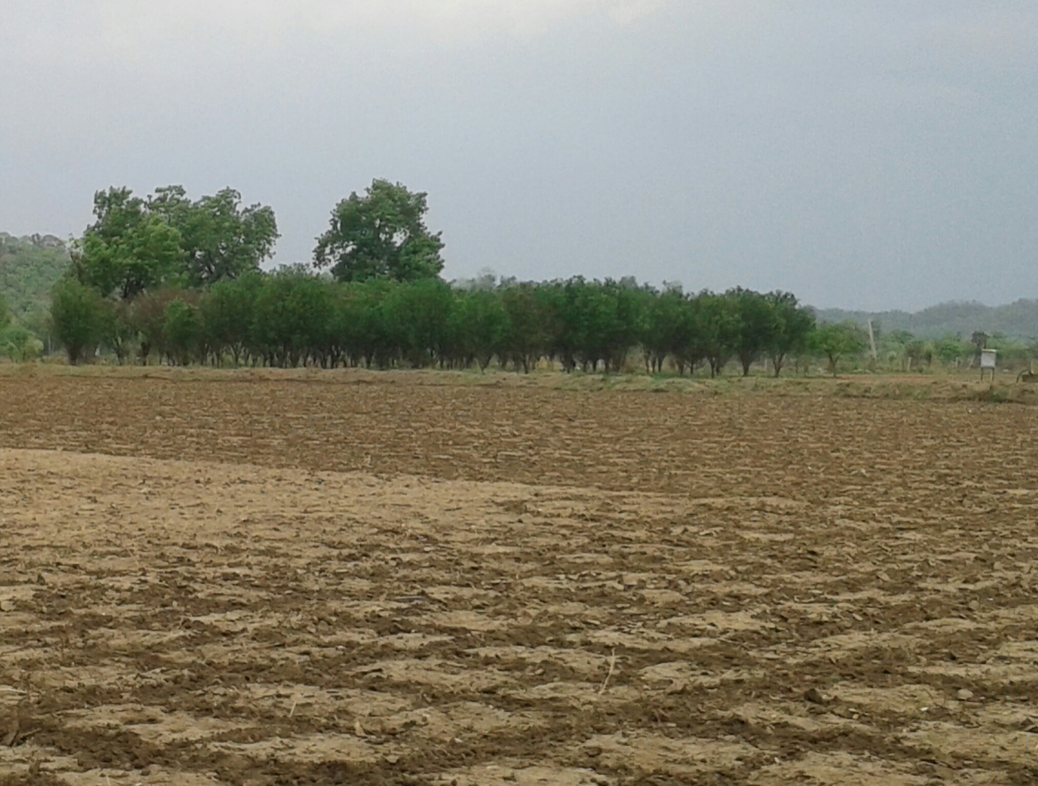 Agriculture land in village of vidharbha region